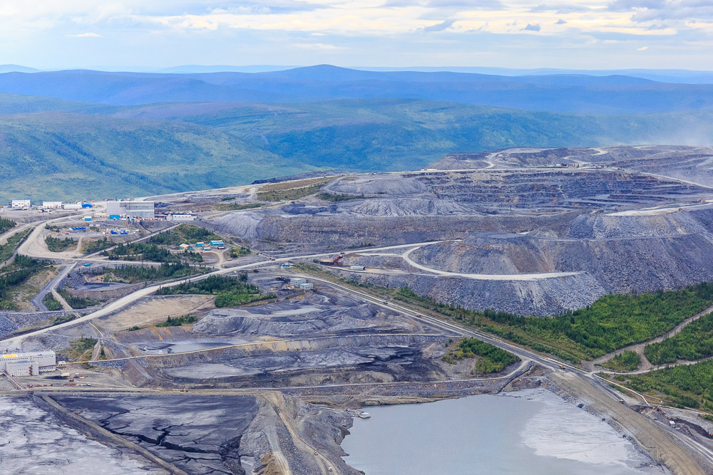 Vysochayshiy2